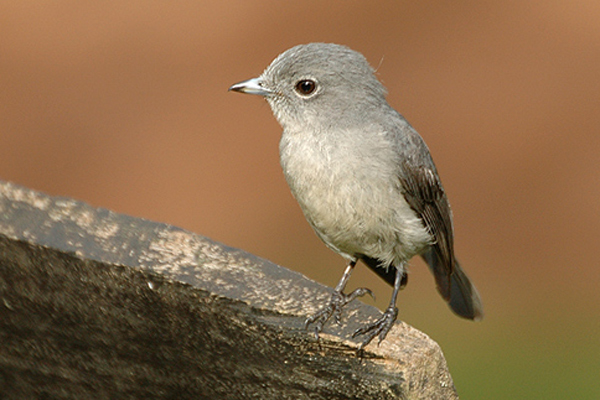 White-eyed Slaty Flycatcher (Dioptrornis fischeri) Buhoma, Bwindi NP, Uganda Jan 2006